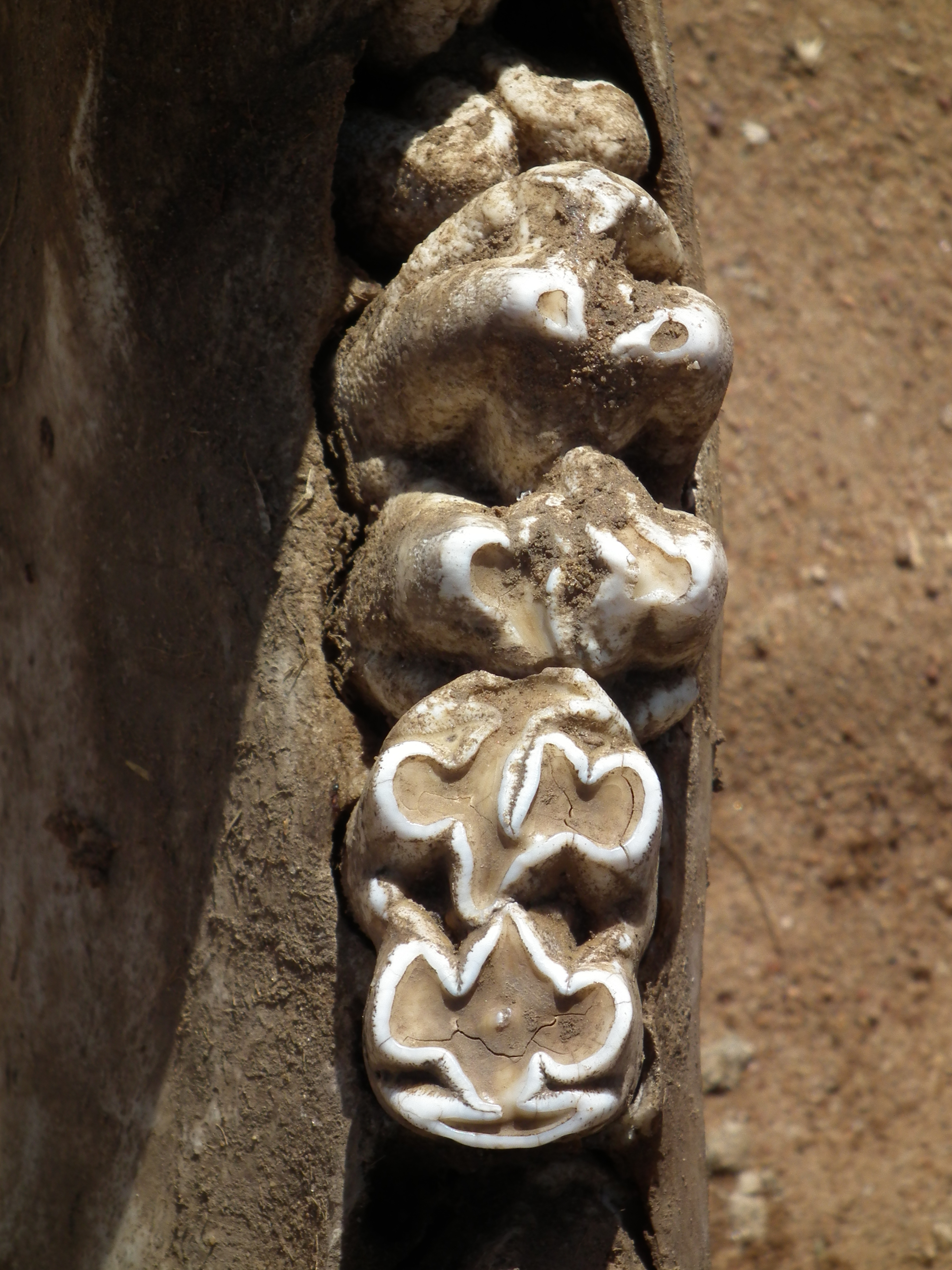 Hippopotamus amphibius from Tanzania